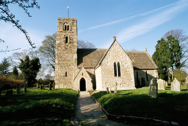 The Parish Church of St Andrew, Bywell This church is looked after by The Churches Conservation Trust